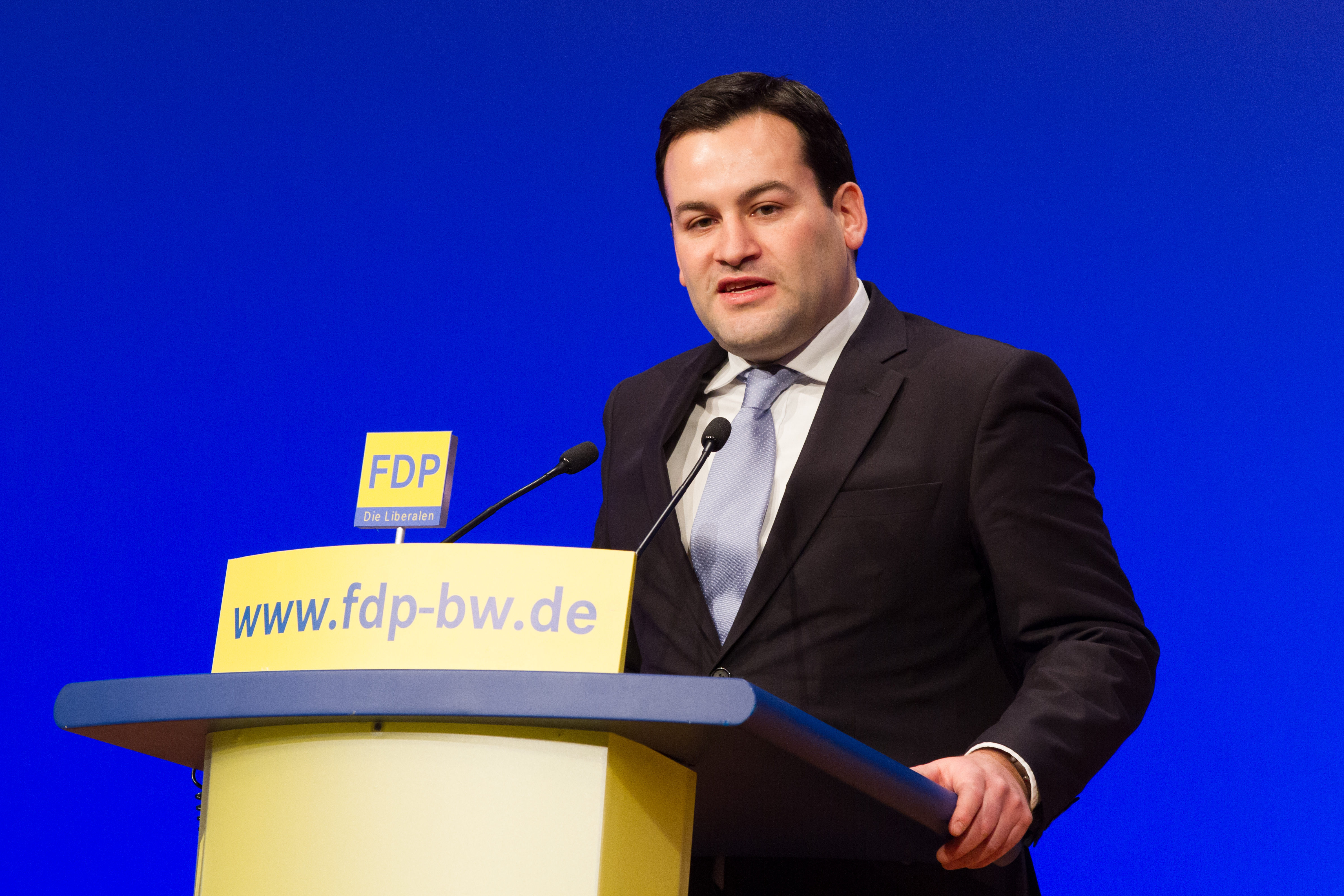 Series: 112th regular party convention of the FDP Baden-Württemberg in Stuttgart on January 5th, 2015 Image: Hosam el Miniawy